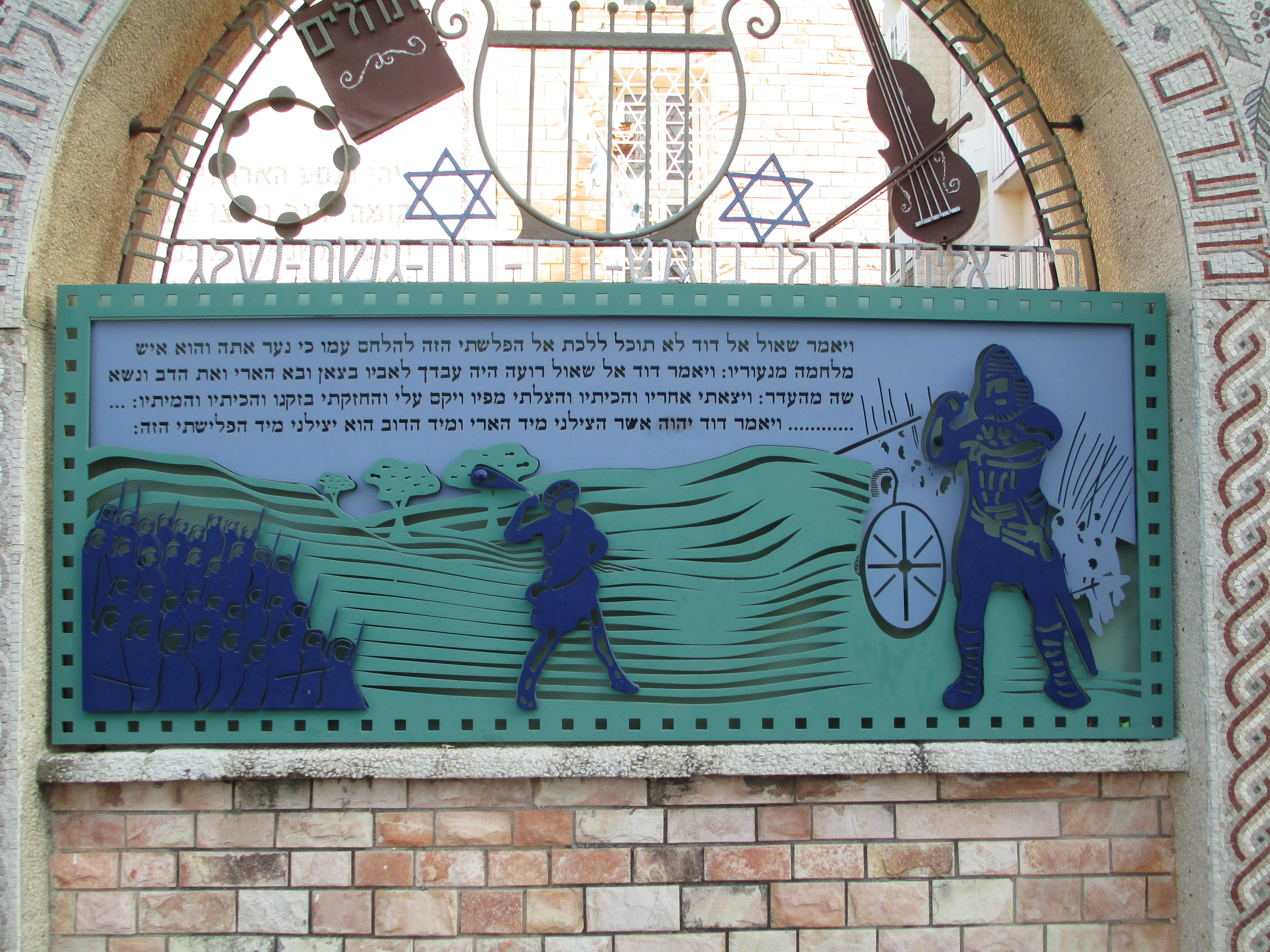 Or Torah Synagogue in Acre-David and Goliath